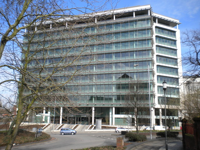 One Reading Central, Forbury Road, Reading